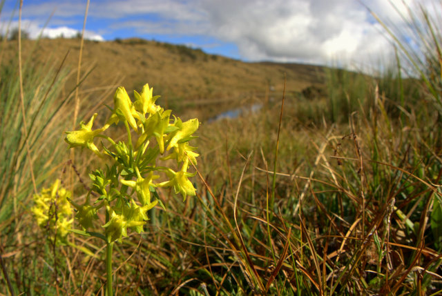 A Gentian flower Halenia sp. in the high-Andean grassland of southeastern Peru